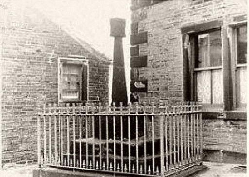 The Stainland Cross, a Grade II listed ancient monument, on Stainland Road, Calderdale. It was restored in 1875 by architect William Swinden Barber, who probably added the railings. The cross has now been removed to a position opposite Stainland Church, and it is now without its railings.